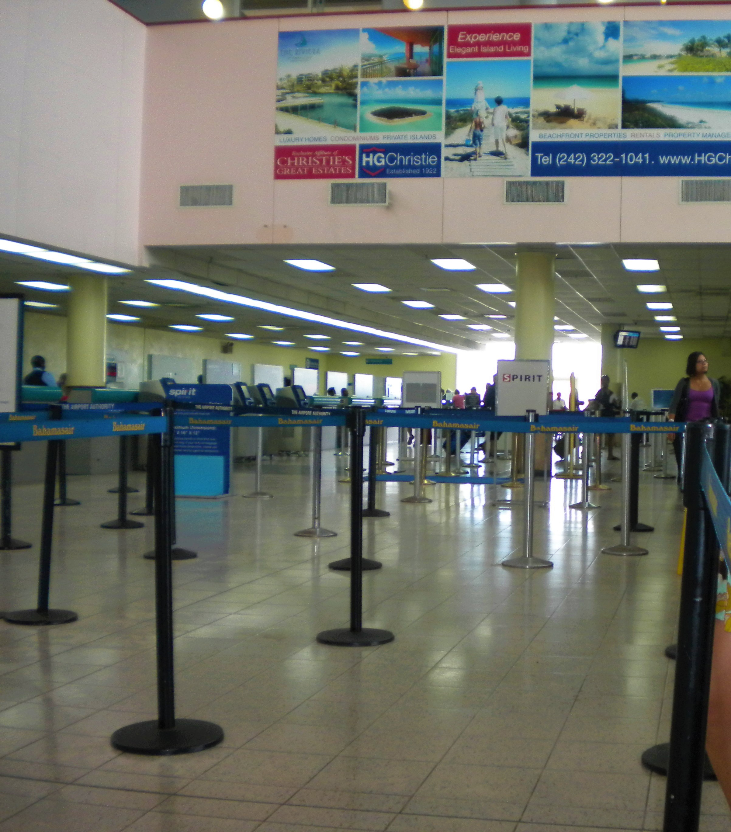 Lynden Pindling International Airport (Nassau, Bahamas) check-in area